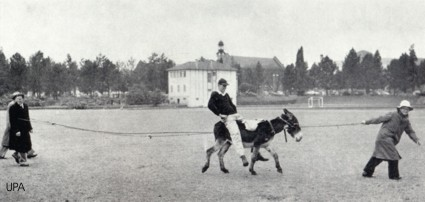 University of Pretoria Spring day - 1939